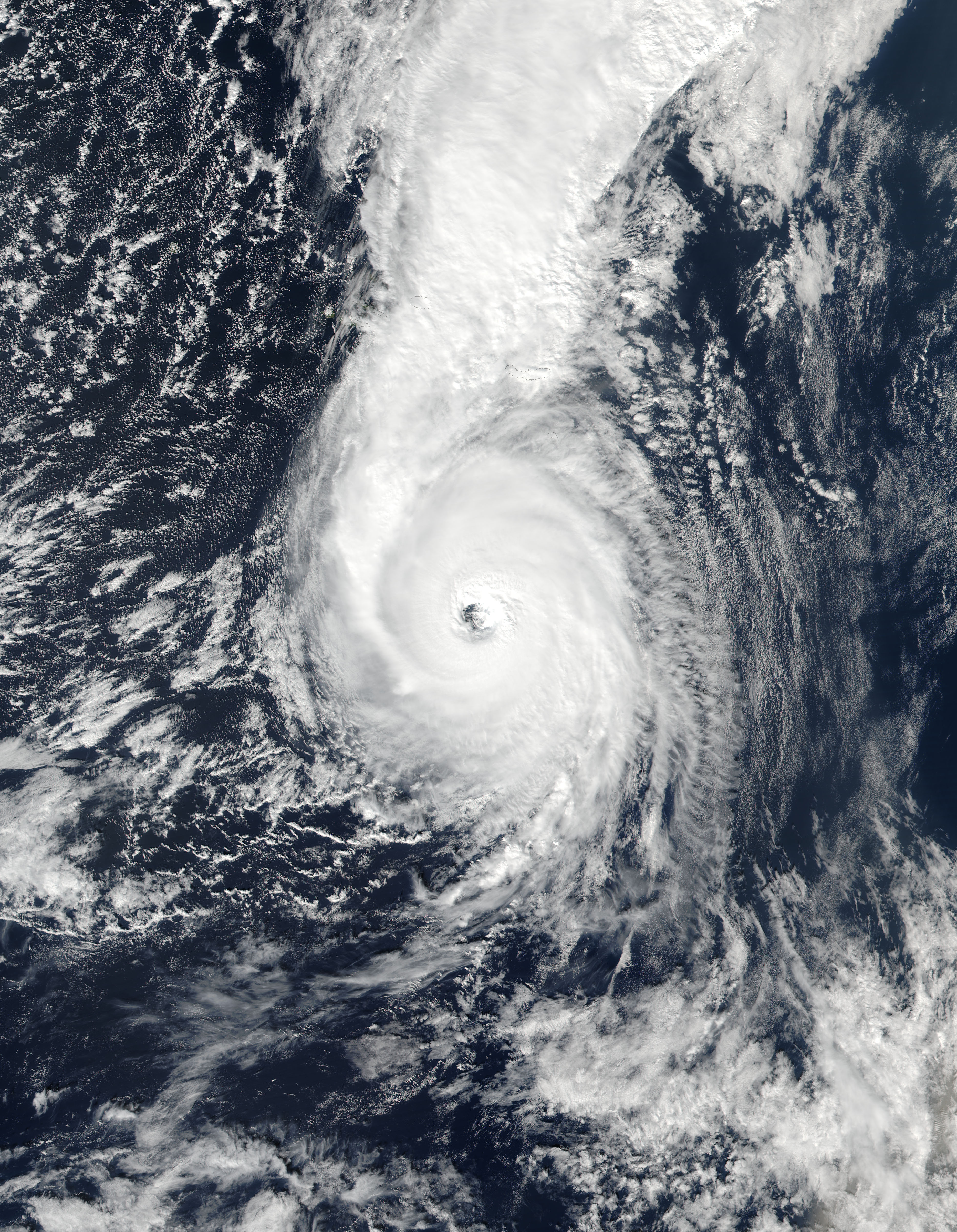 Hurricane Ophelia (17L) in the Atlantic Ocean